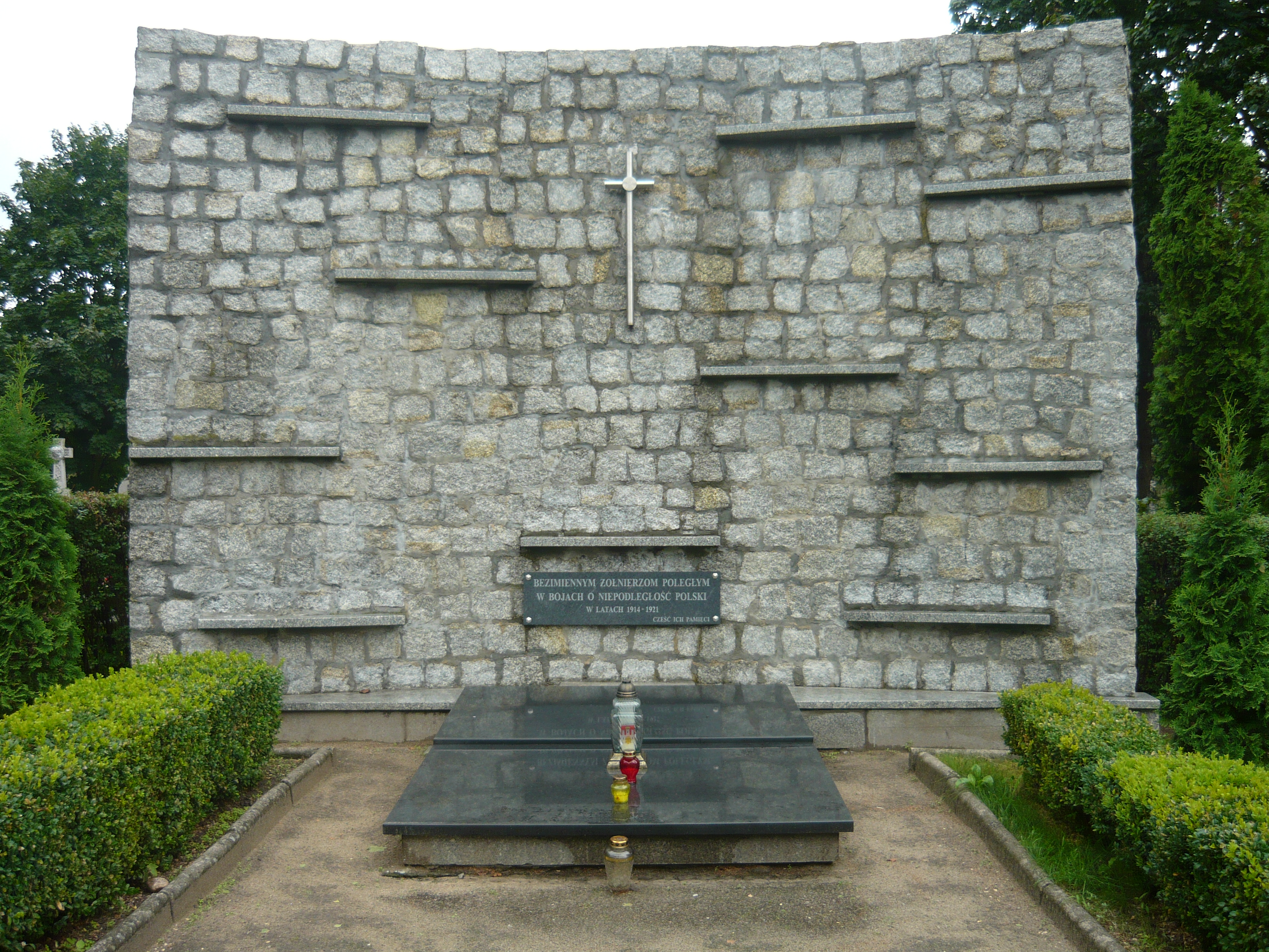 The monument of nameless soliders killed on the wars of Polish independence from 1914 to 1921, Włocławek's graveyard.